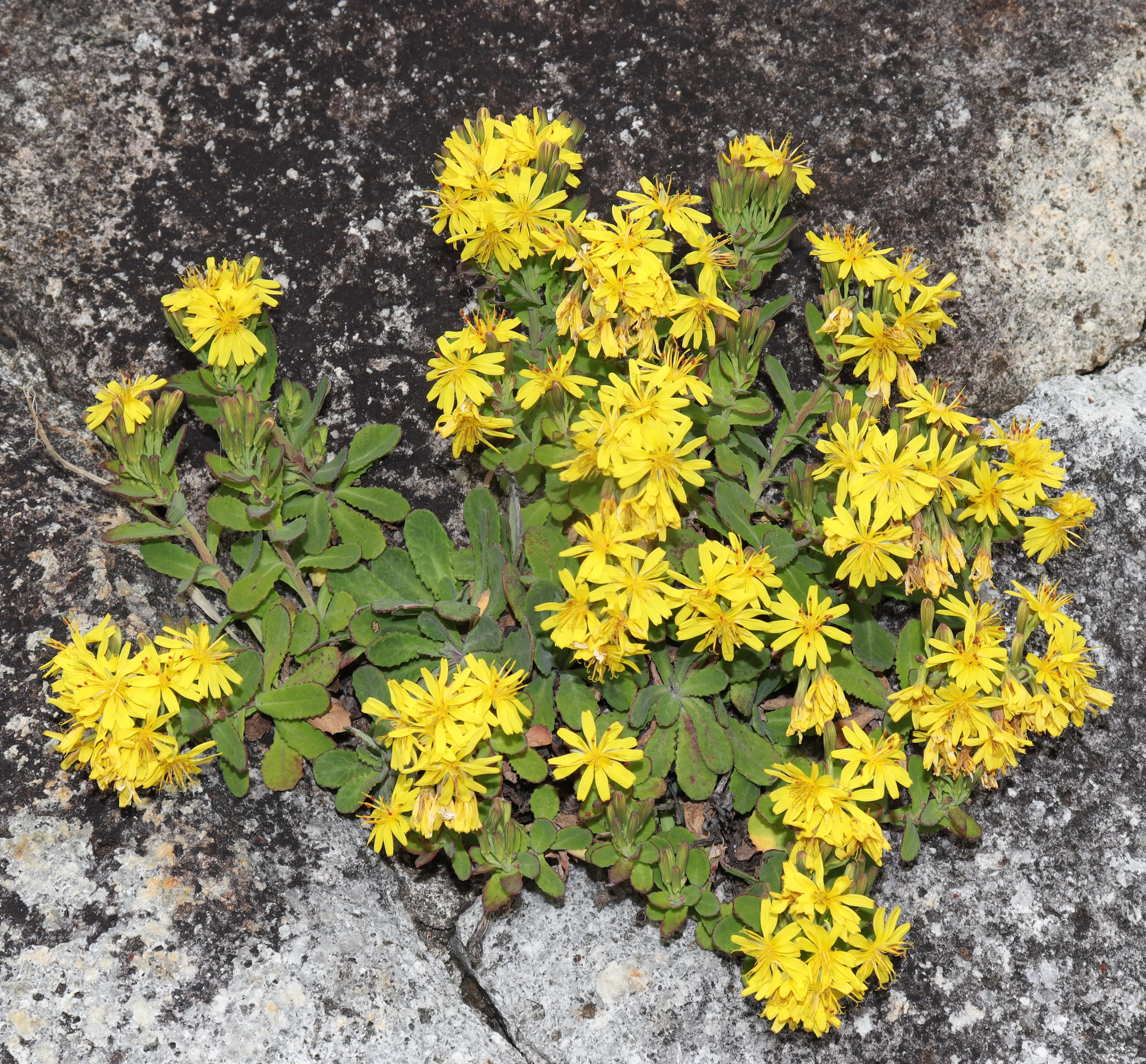 Crepidiastrum keiskeanum in Shima Peninsula, Shima, Mie Prefecture, Japan.